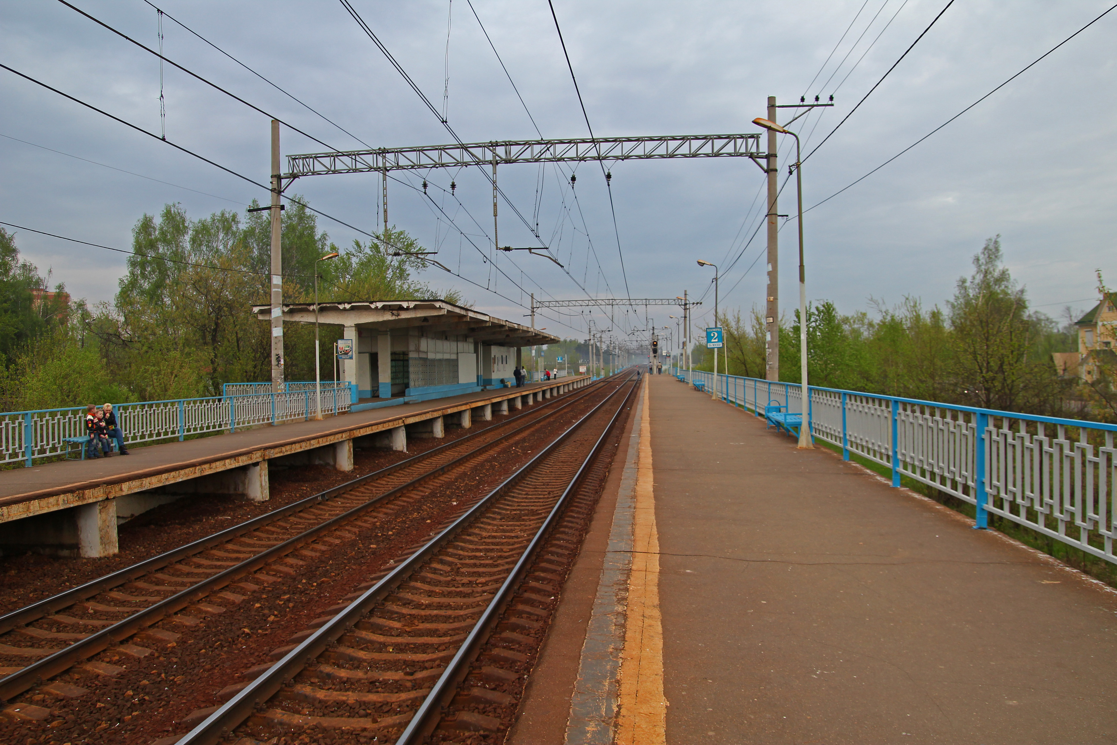 Train stop Kokoshkino in Moscow (formerly in Moscow Oblast)